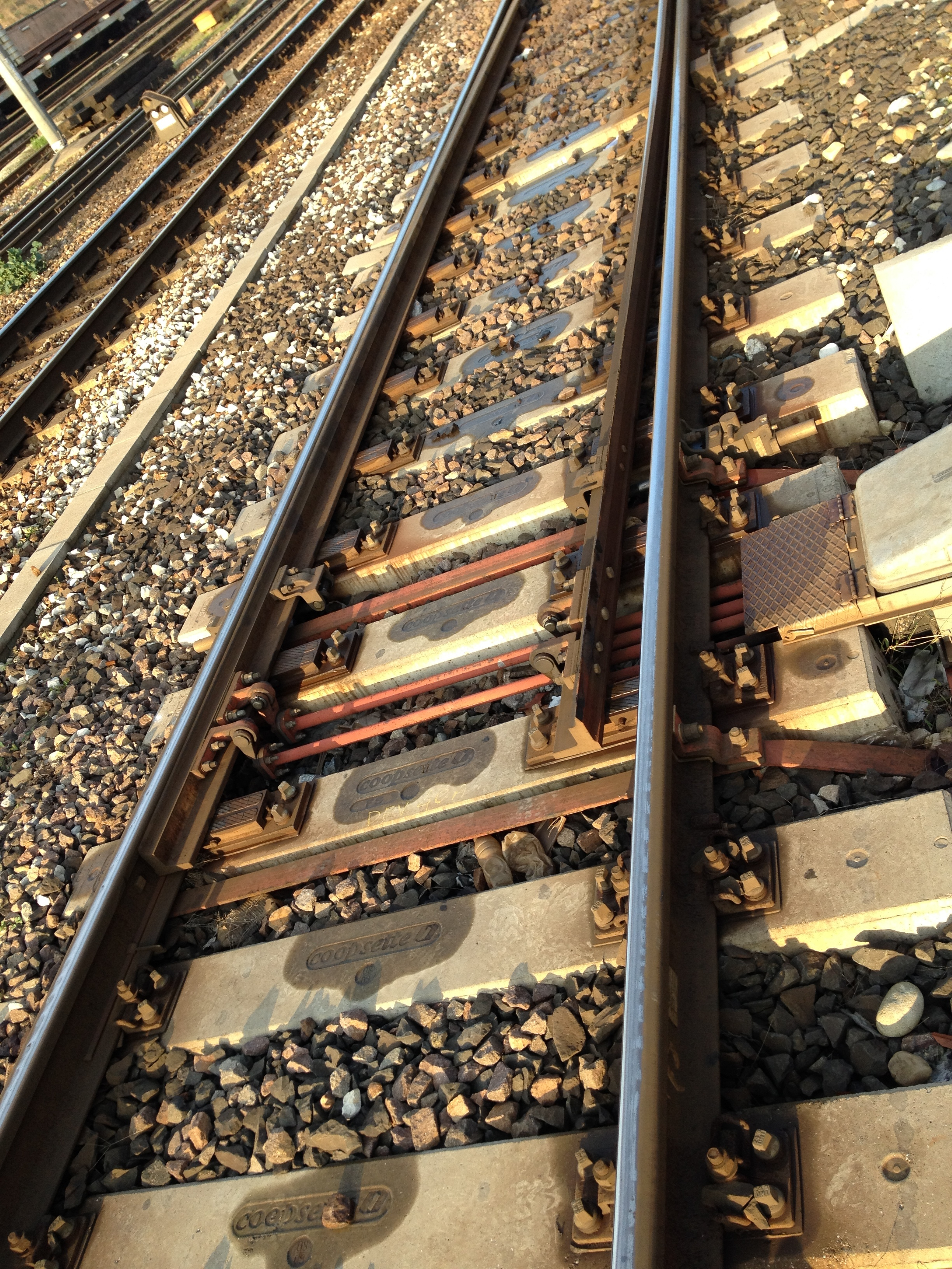 railroad switch, point blades